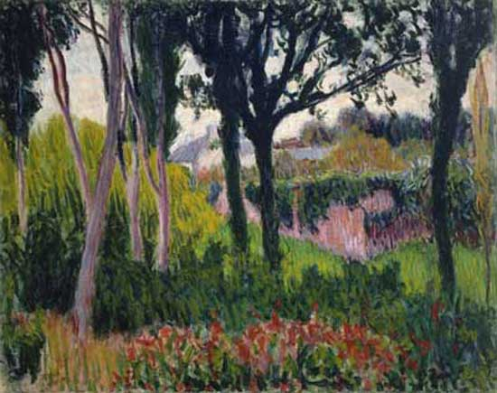 Farm-at-Lezaven